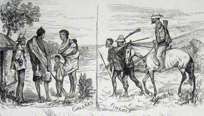 Illustration of the traditional dress and weapons of the Gcaleka Xhosa and the Fengu. 1878. At the time these two nations were in conflict. The Cape Colony intervened on the side of the Fengu and a Fontier war ensued.